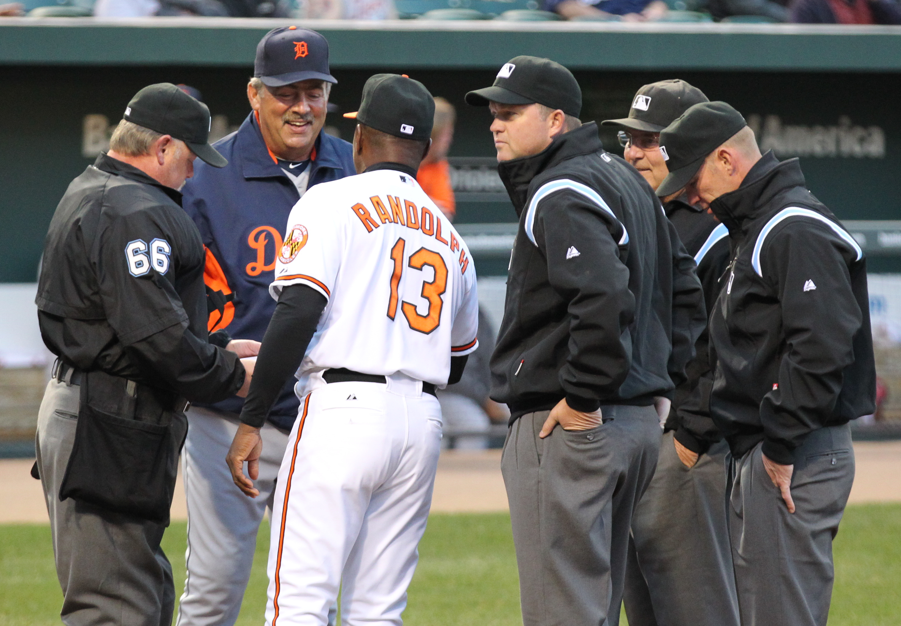 Detroit Tigers pitching coach Jeff Jones shakes hands with Willie Randolph of the Baltimore Orioles as the umpires look on.